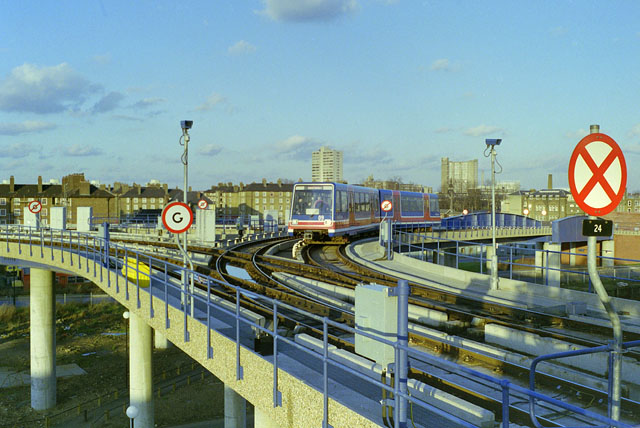 Triangular junction, West India Quay, late 1987 The Docklands Light Railway layout has been greatly remodelled in this area since 1987. Unit 09 for Island Gardens approaches from the east.